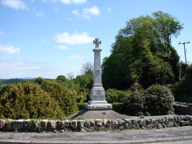 Auchencairn War Memorial. Well kept war memorial built 1920 in Aberdeen granite, crowned with a A.V.C. finial. Behind is the Millennium Garden, see 802827.